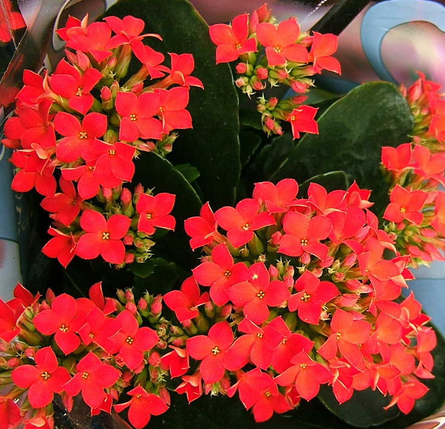 Flaming Katy